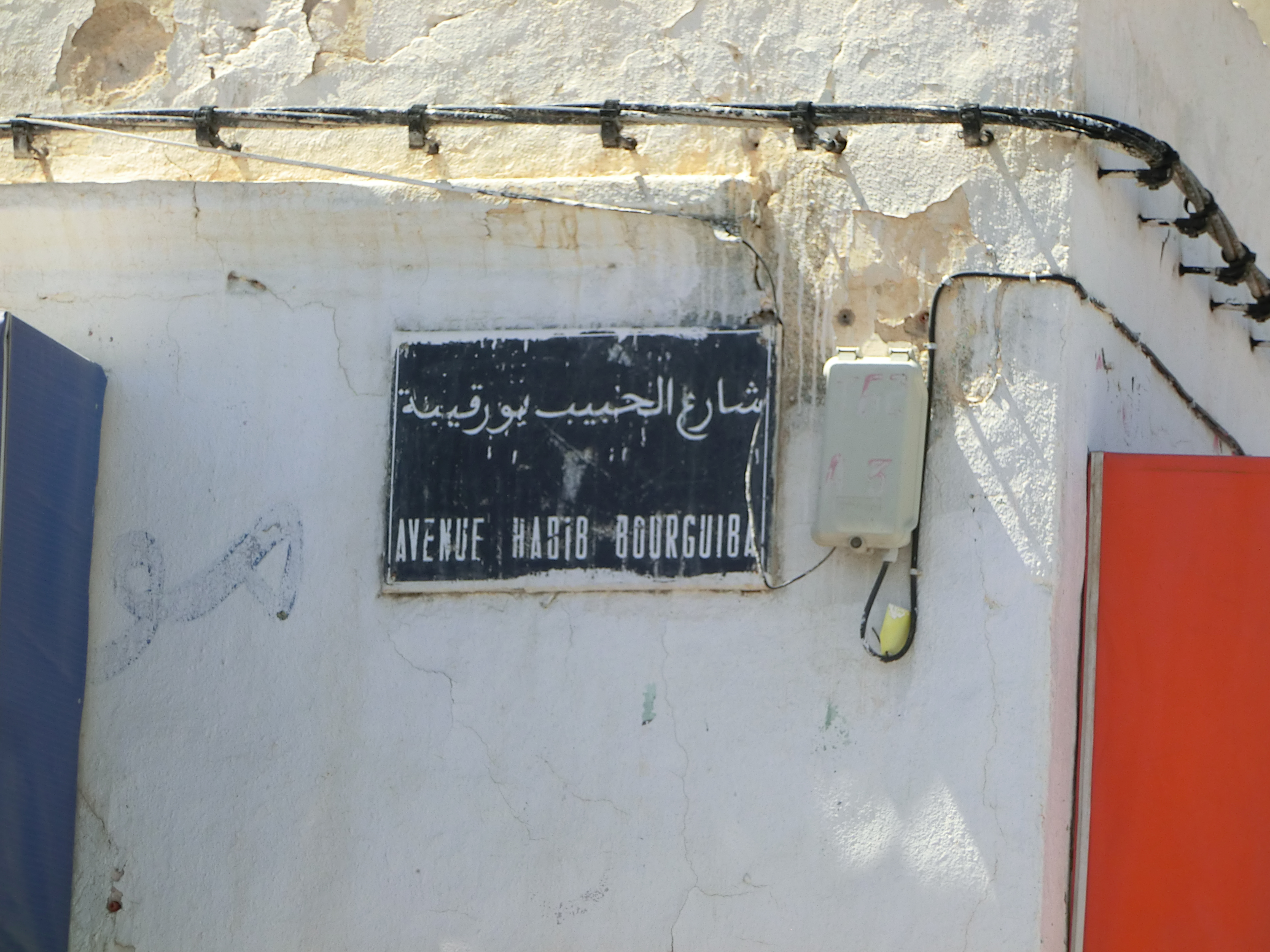 Street sign in Ben Gardane, Tunisia